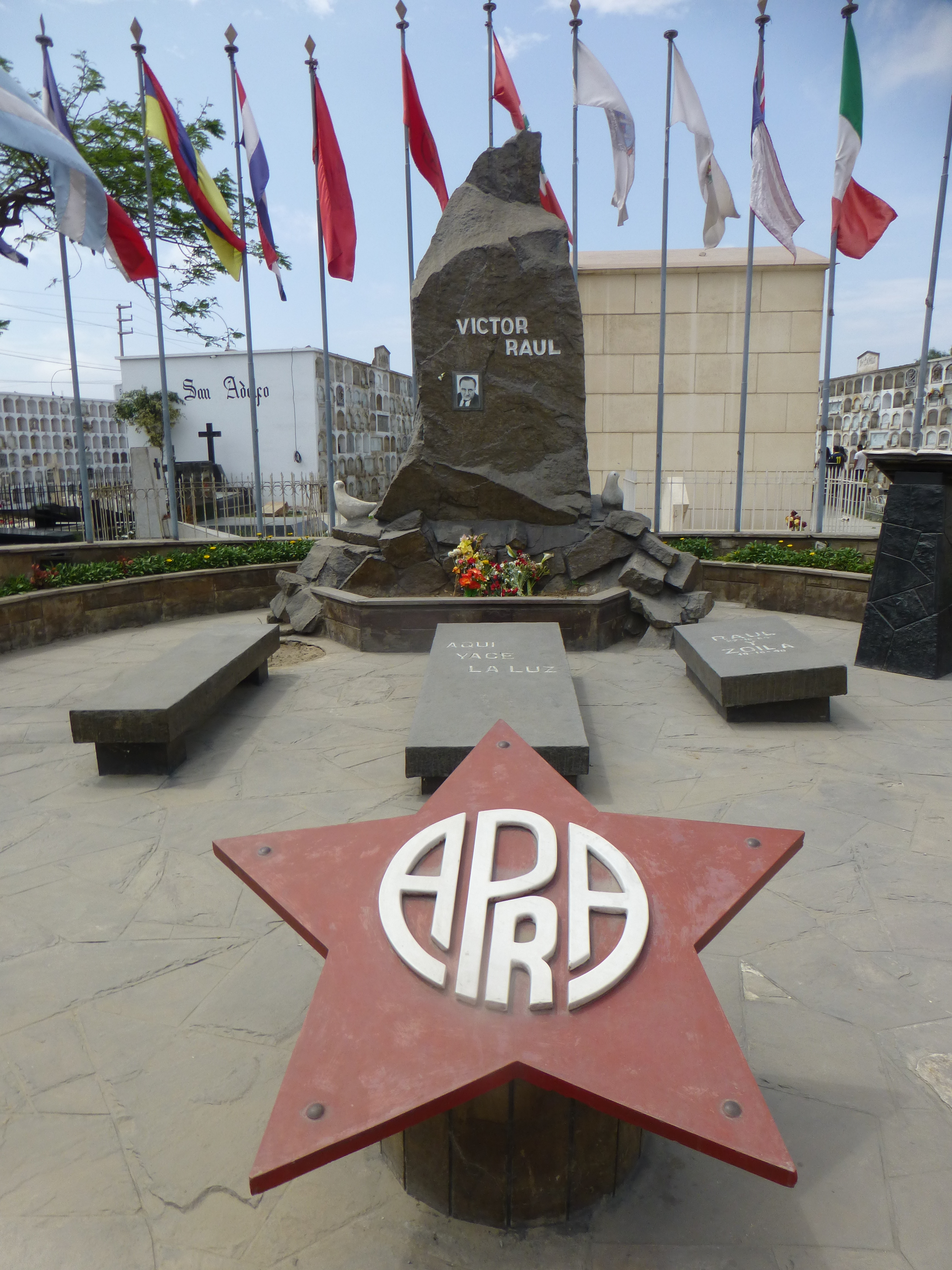 Víctor Raúl Haya de la Torre's grave